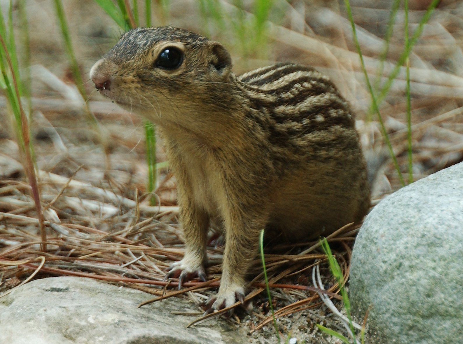 Crop of file in filename